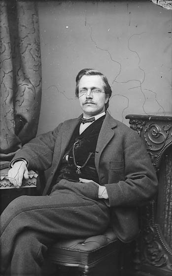 1 negative : glass, wet collodion, b&w ; 11 x 16.5 cm.